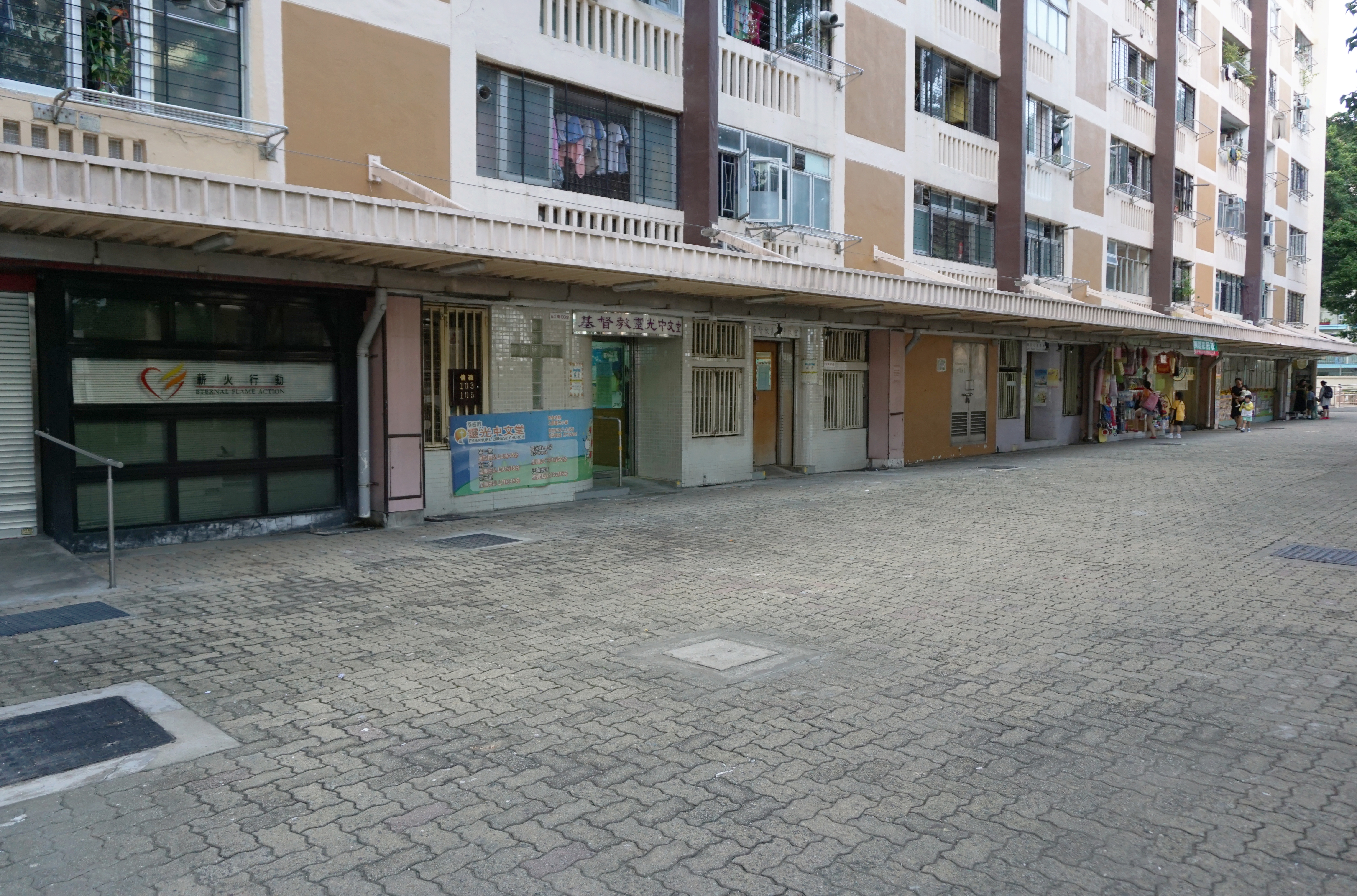 Magnolia House in Ma Tau Wai, Hong Kong.